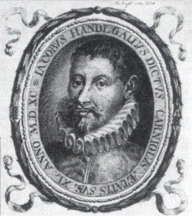 Woodcut portrait of Jakob Petelin Gallus, published in the tenor-voice of Opus musicum, book IV (1590).